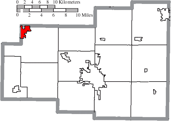 Map of the municipal and township boundaries of Allen County, Ohio, United States, as of the 2000 census, with the location of the city of Delphos highlighted. Township borders are shown only in unincorporated areas in order to differentiate incorporated and unincorporated areas more clearly.